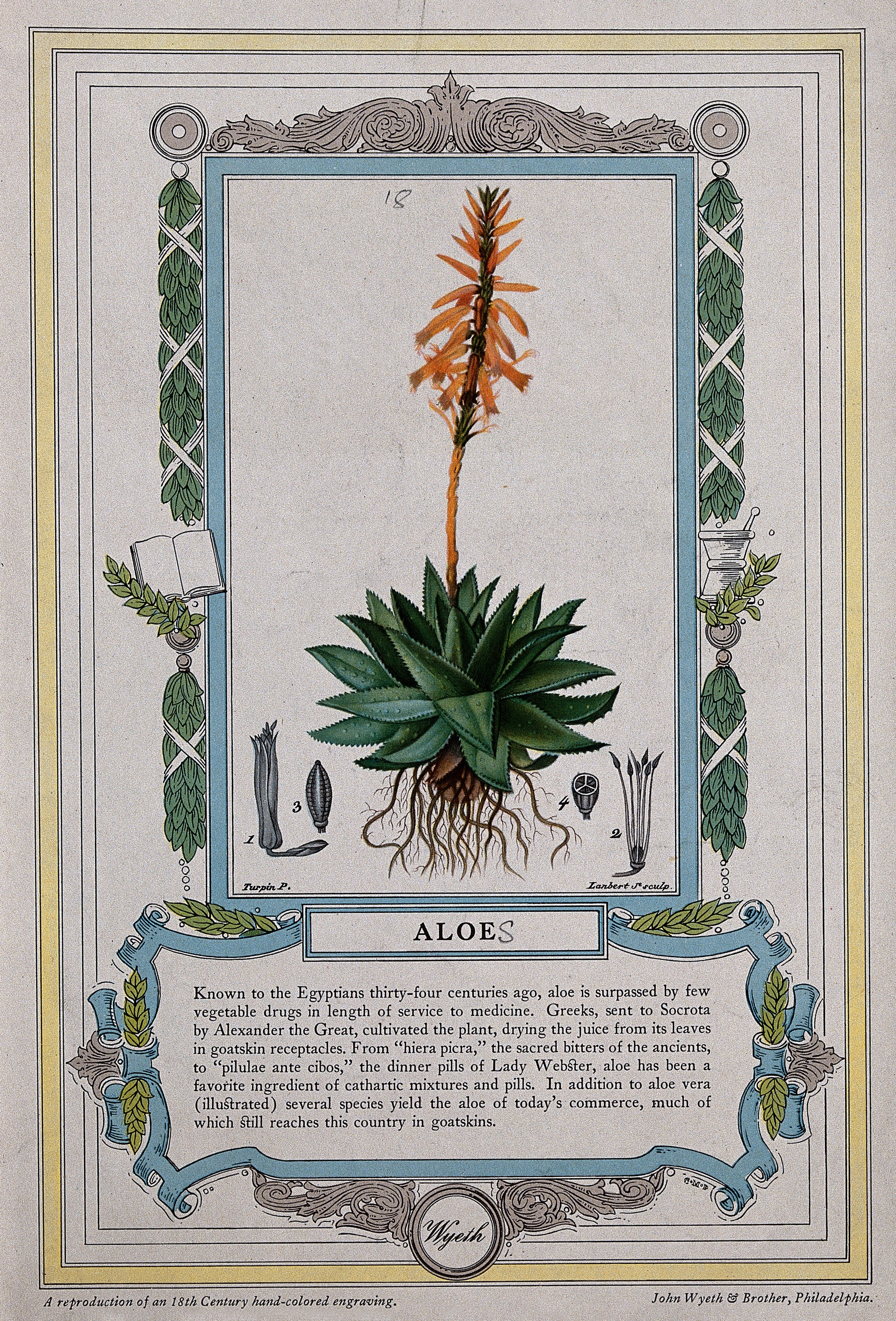 Barbados aloe plant (Aloe vera): flowering plant and floral segments. Reproduction of a coloured engraving by J. Lambert, c. 1842, after P. Turpin. Iconographic Collections Keywords: aloe barbadensis; Pierre Jean Francois Turpin; James Lambert; ic; aloeaceae; Francois Pierre Chaumeton